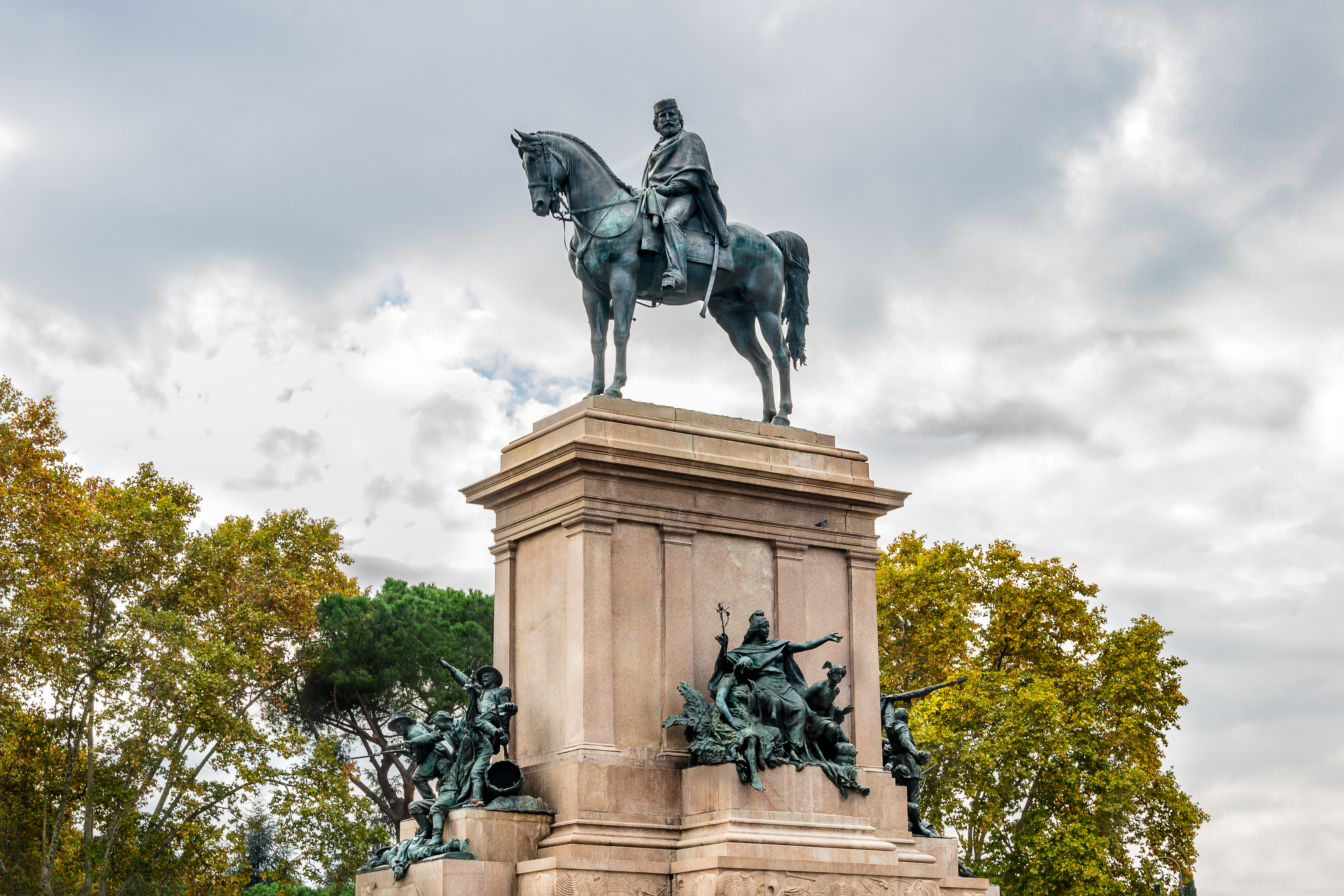 The Monument Garibaldi in the Piazzale Giuseppe Garibaldi in Rome